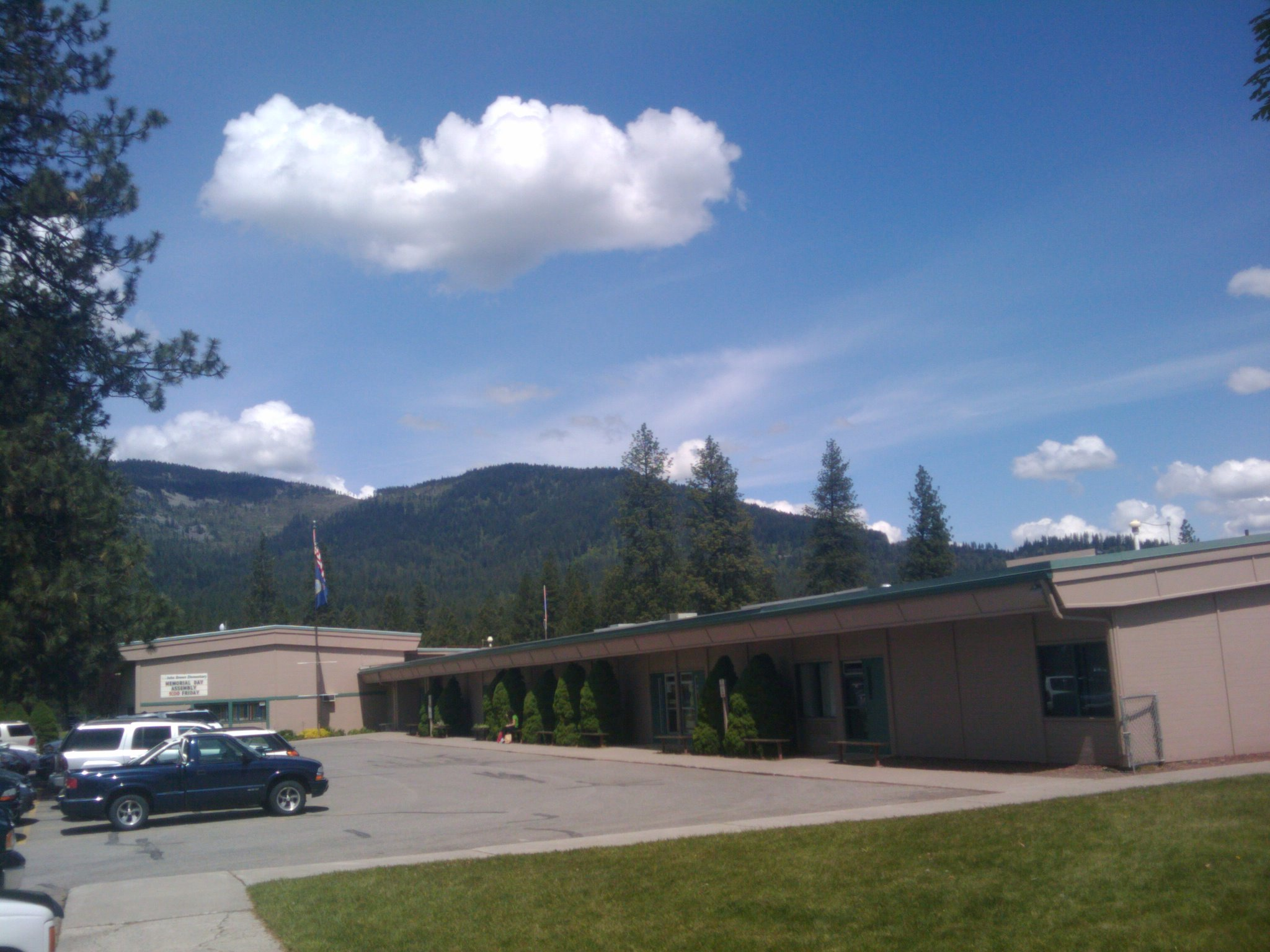 This is a picture of the intermediate wing of John Brown Elementary, as well as the main entrance area.